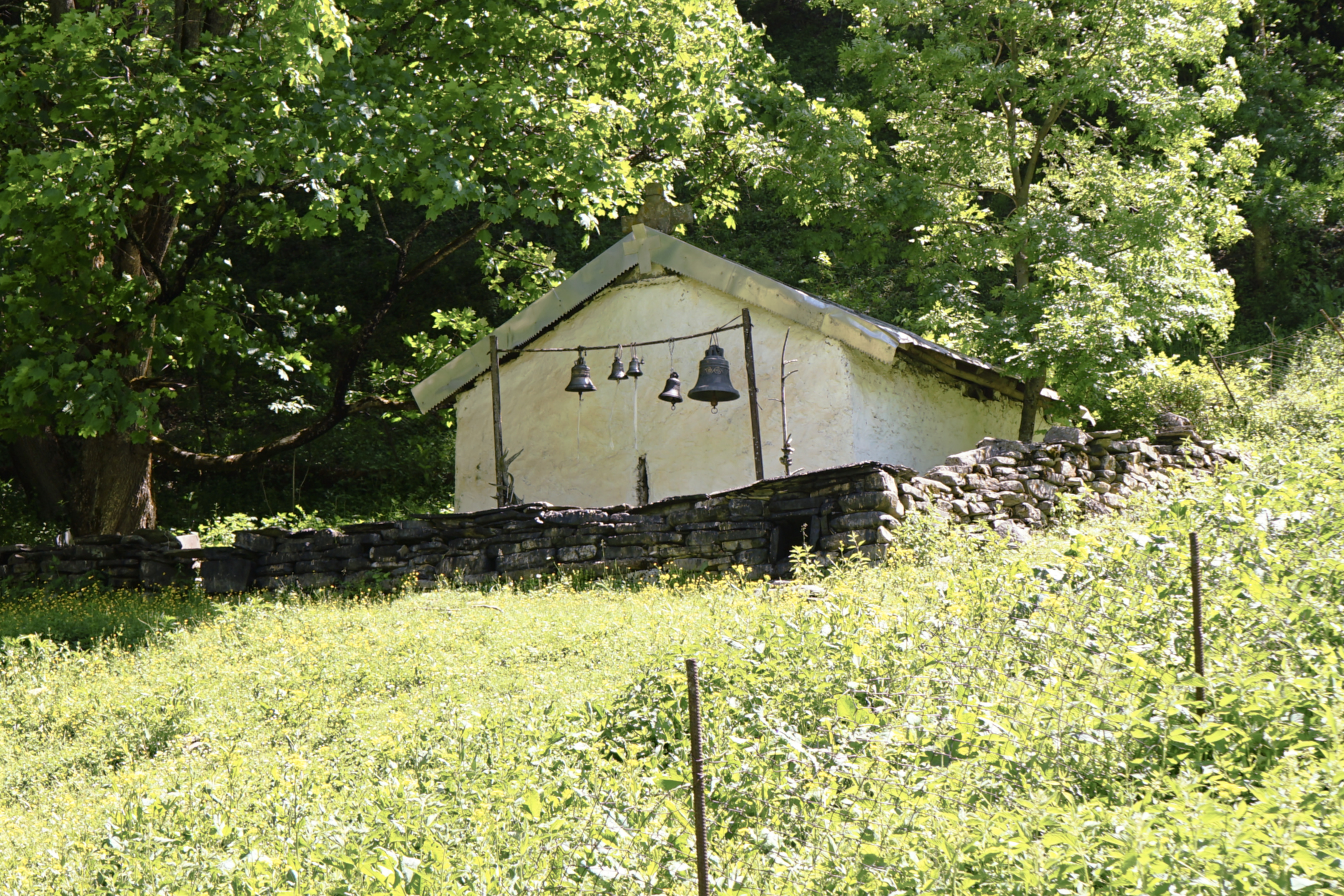 Pirimze Church in Chokhi, Gudamakari Gorge, Mtskheta-Mtianeti, Georgian